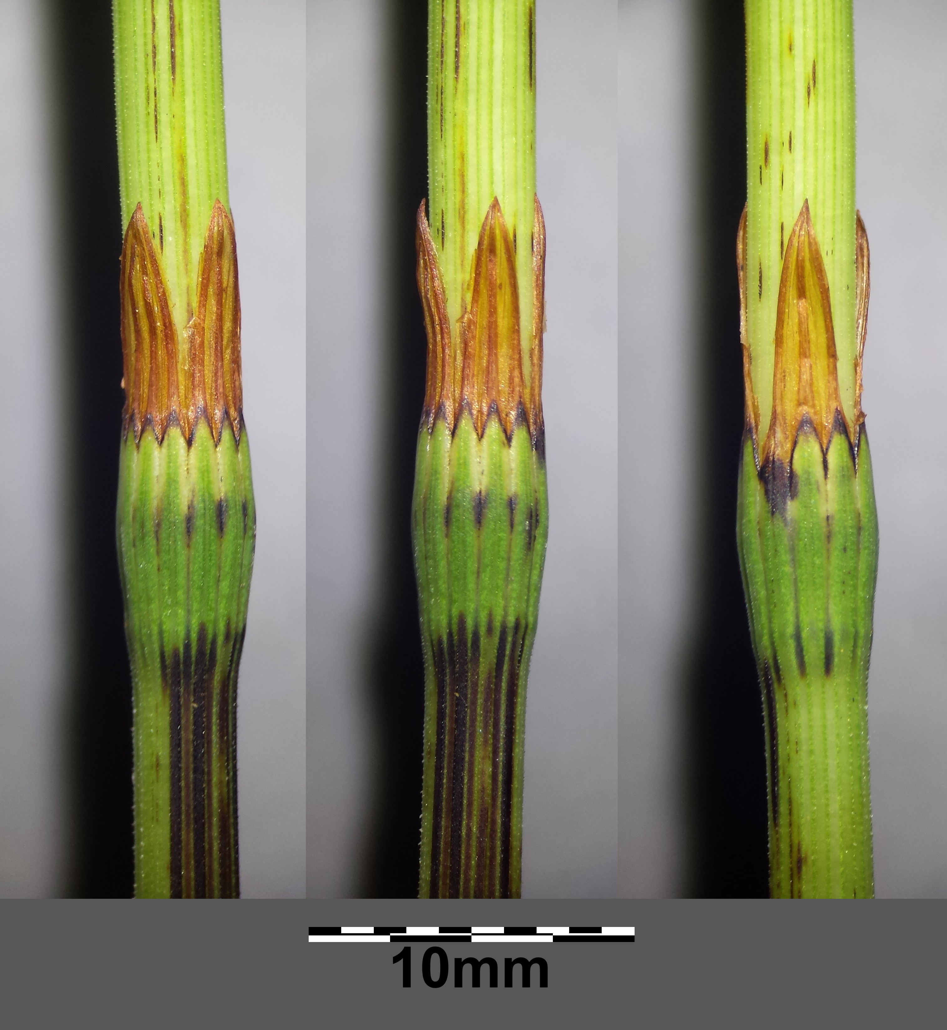 Stem with sheath with teeth Taxonym: Equisetum sylvaticum ss Fischer et al. EfÖLS 2008 ISBN 978-3-85474-187-9 Location: nearby Riebeis, Rappottenstein, district Zwettl, Lower Austria - ca. 750 m a.s.l. Habitat: wood